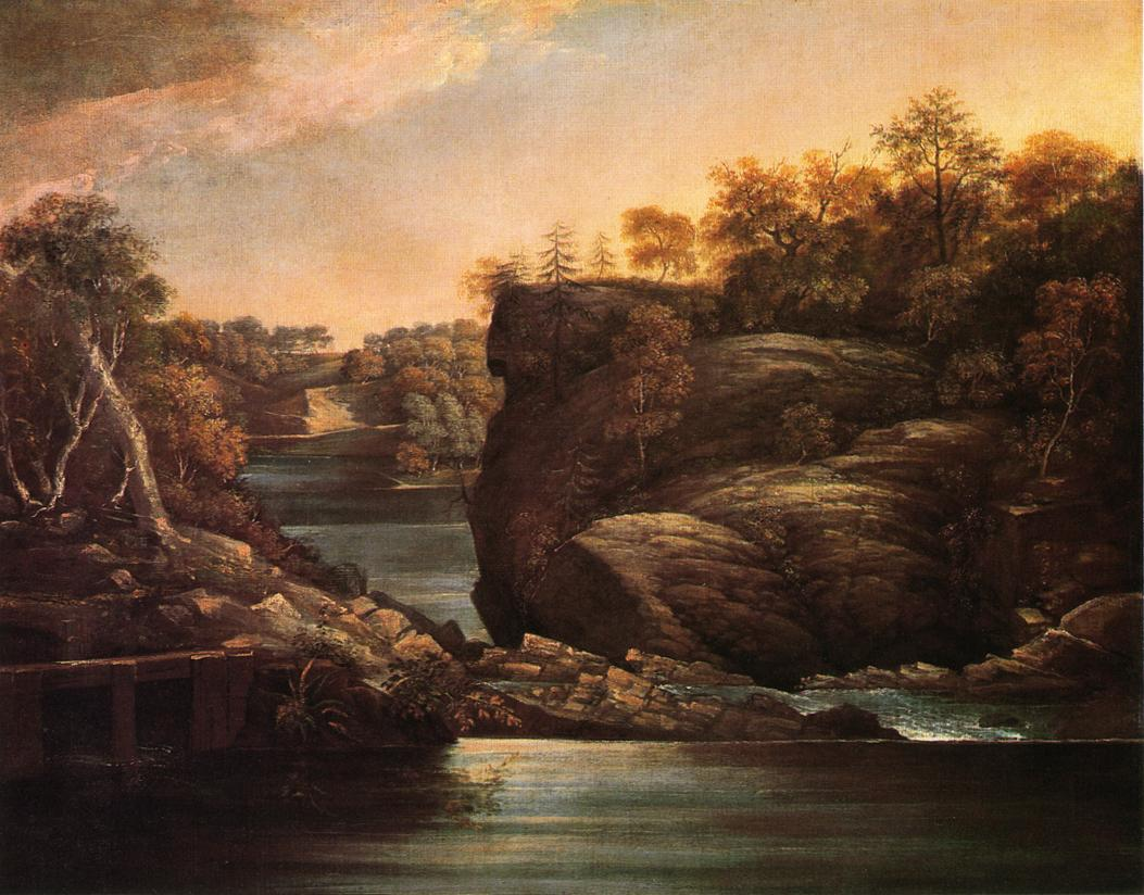 "Norwich Falls," also known as "The Falls of the Yantic at Norwich," oil on canvas, by the American artist John Trumbull. Courtesy of the Yale University Art Gallery.